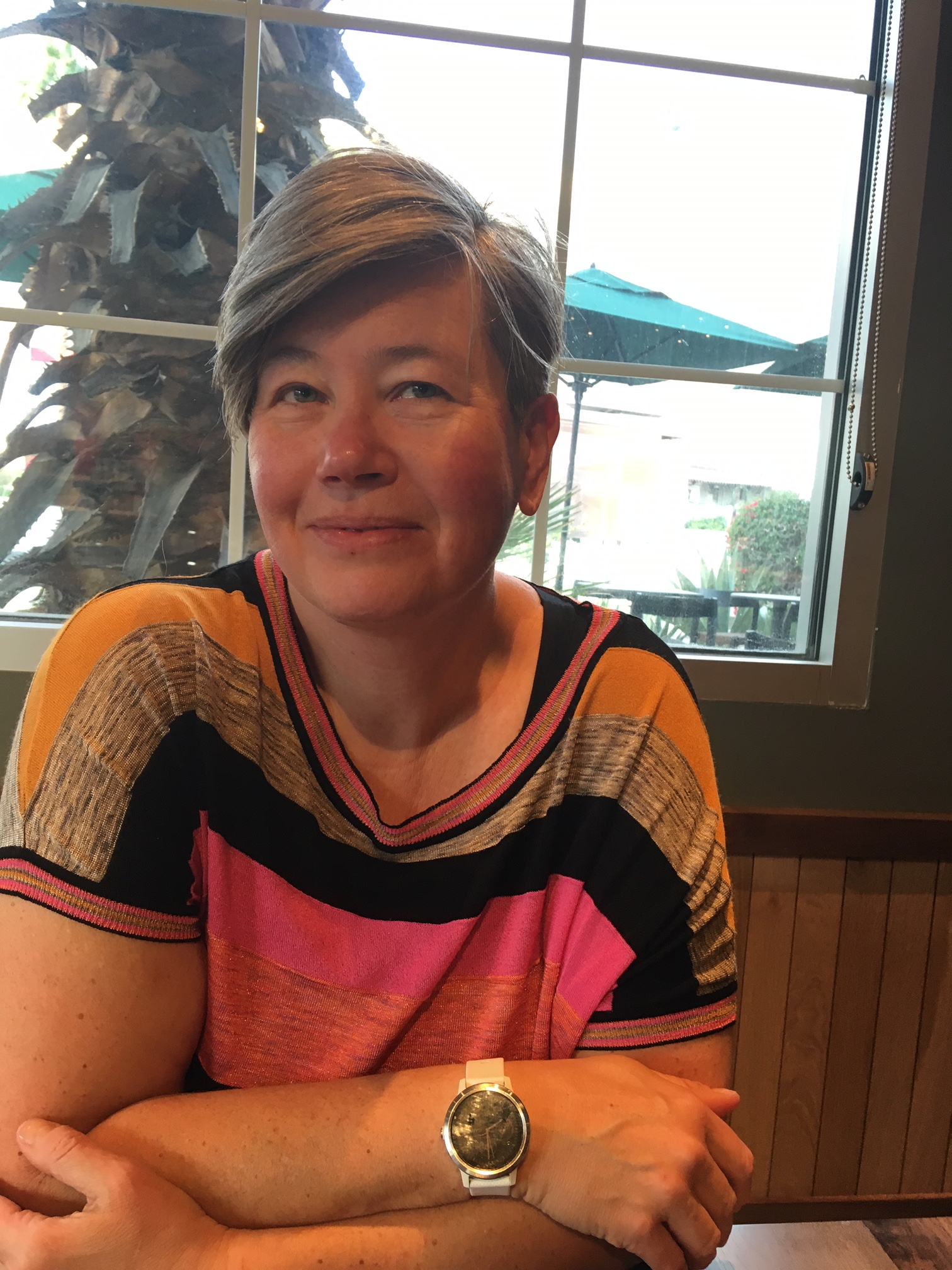 Headshot of Sasha Roseneil